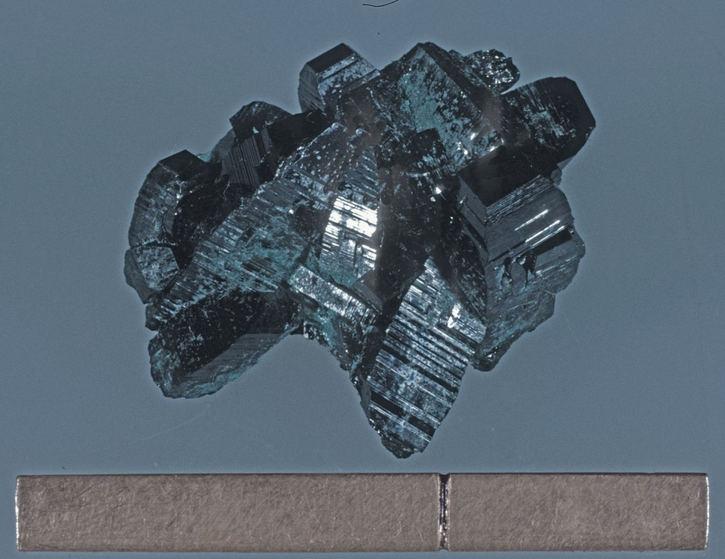 Paramelaconite Locality: Copper Queen Mine (Halero Mine), Queen Hill, Bisbee, Warren District, Mule Mountains, Cochise County, Arizona, USA Paramelaconite. Specimen is from the collection of Rock Currier (1975). Scale at bottom of image is an inch with a rule at one cm.